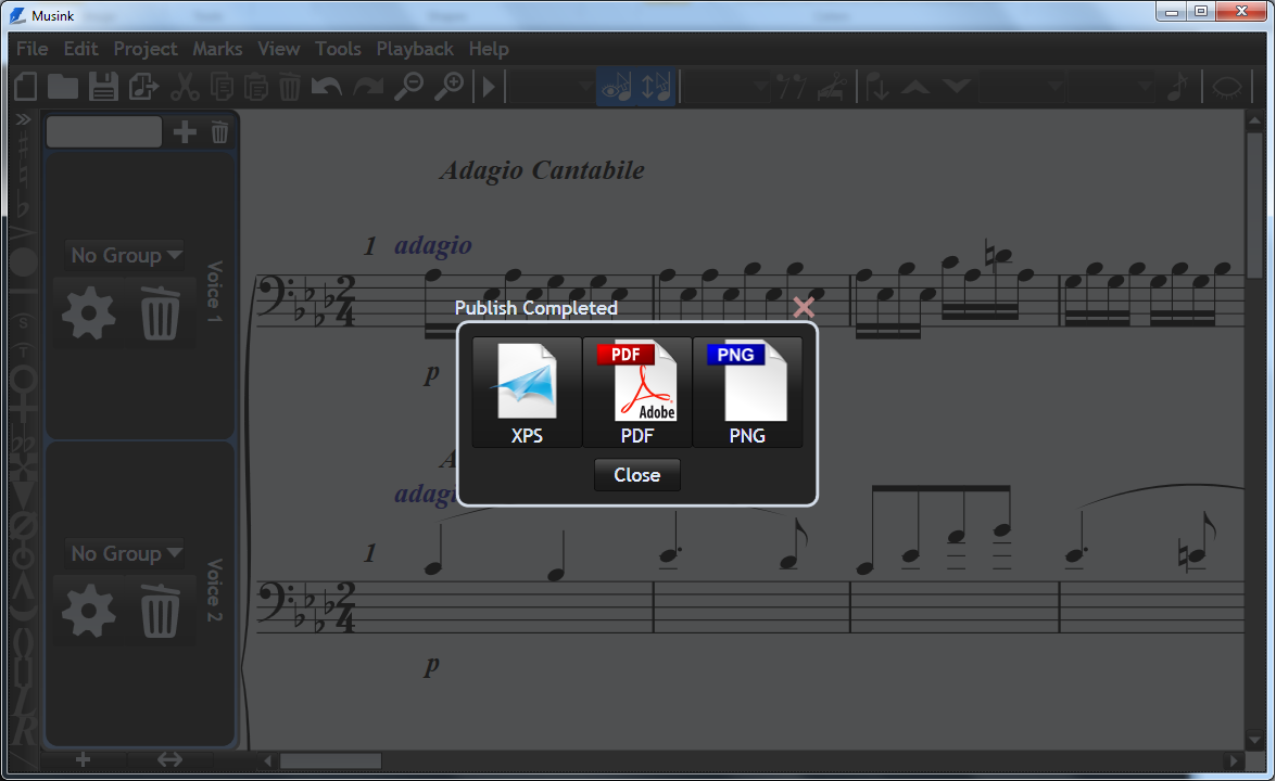 A screenshot of Musink Lite Version 1.0.1.0 after it has completed pubishing, demonstrating its ability to save as PDF, XPS or PNG.